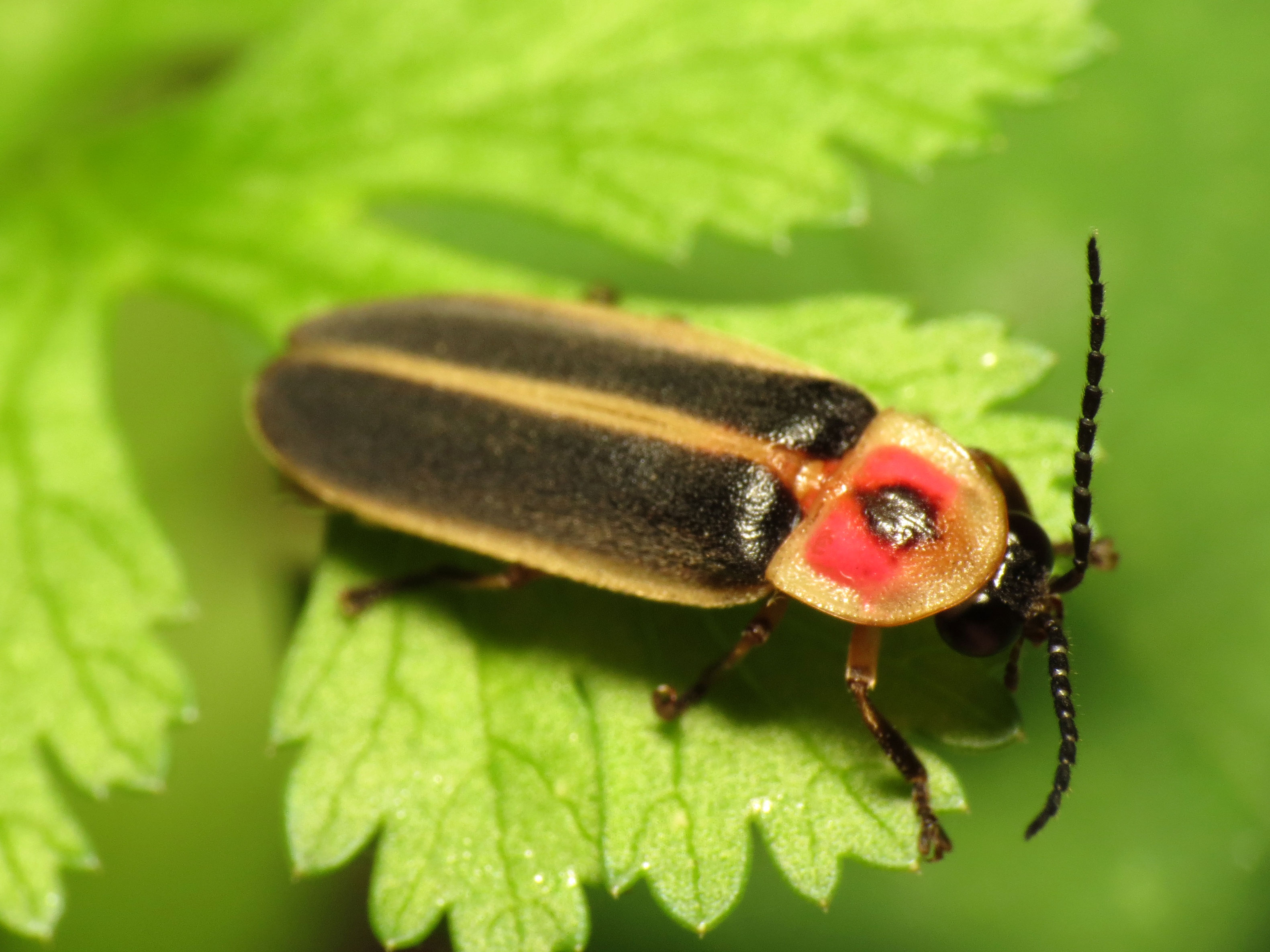 Photinus pyralis. Mount Pleasant, Washington, DC, USA.